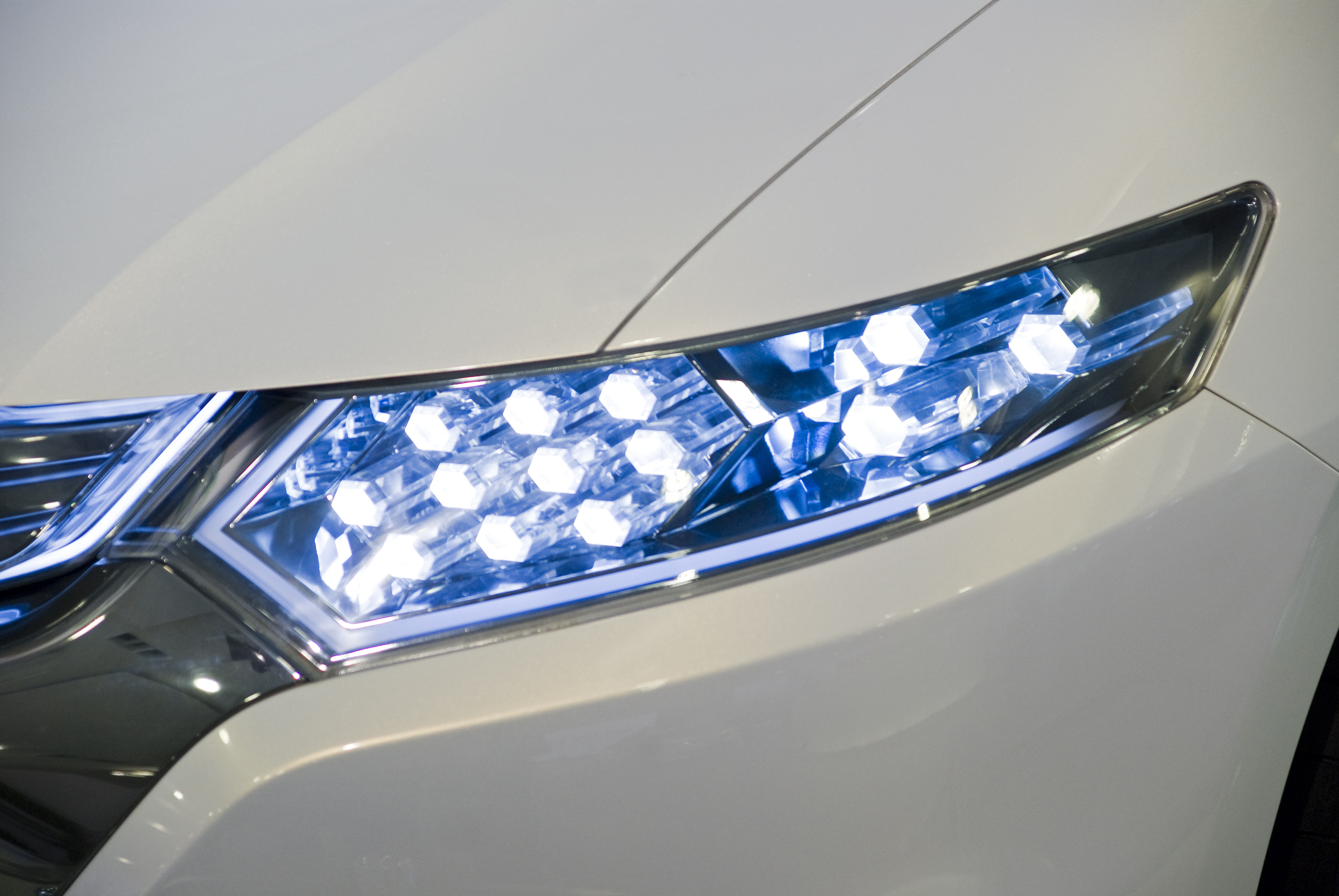 Honda Insight Concept Light Emitting Diode(LED) Headlight